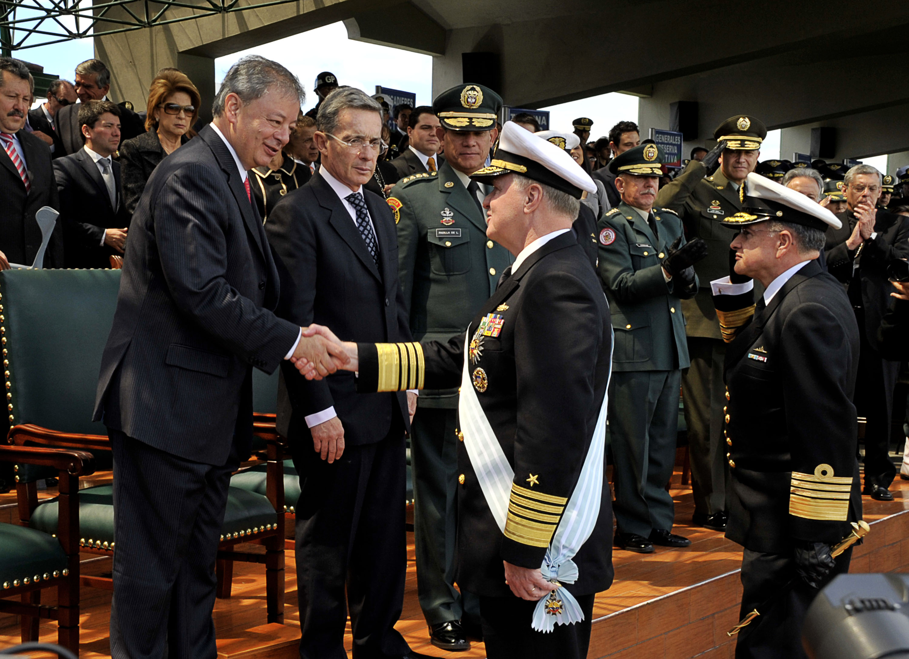 BOGOTA (Dec. 3, 2009) Chief of Naval Operations (CNO) Adm. Gary Roughead, middle, is congratulated by Minister of Defense Gabriel Silva, left, after receiving the Admiral Padilla Naval Order of Merit from Colombian President Alvaro Uribe. With Silva and Uribe are Gen. Freddy Padilla, commander of Colombian military forces and Adm. Guillermo Barrera, right, commander of Colombian naval forces. (U.S. Navy photo by Mass Communication Specialist 1st Class Tiffini Jones Vanderwyst/Released)